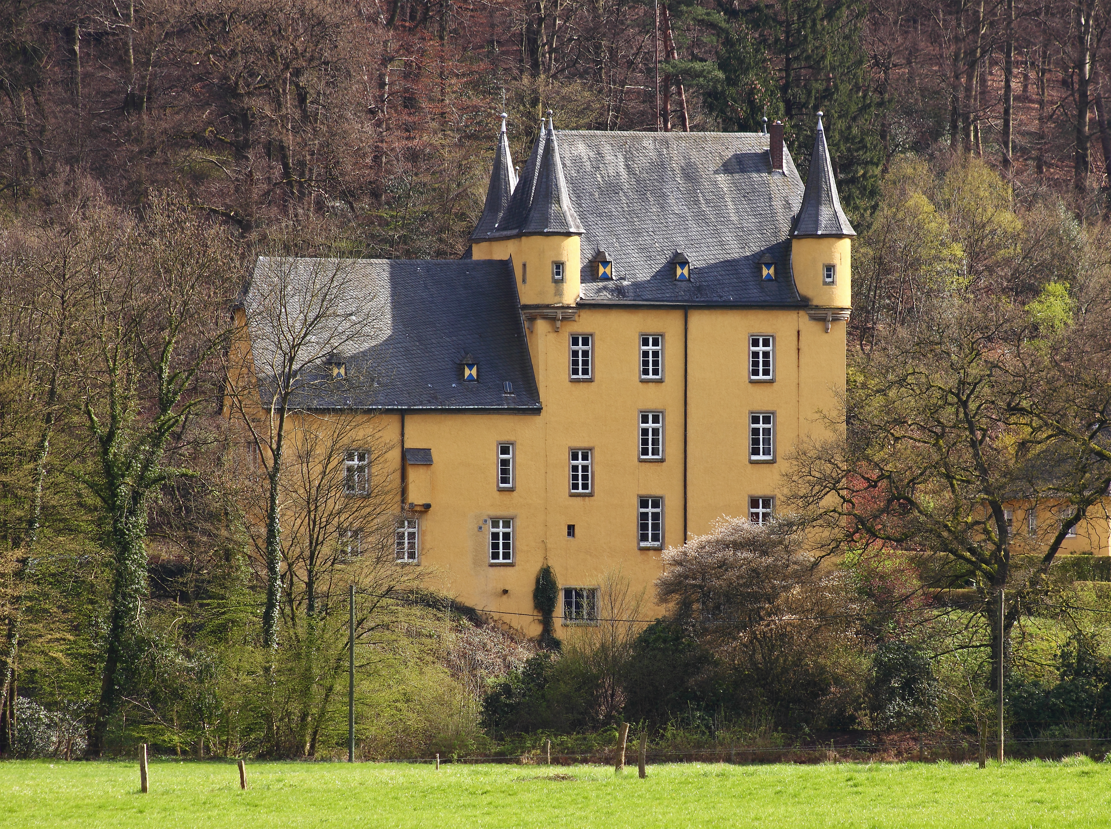 Odenthal (NRW, Germany); Strauweiler castle